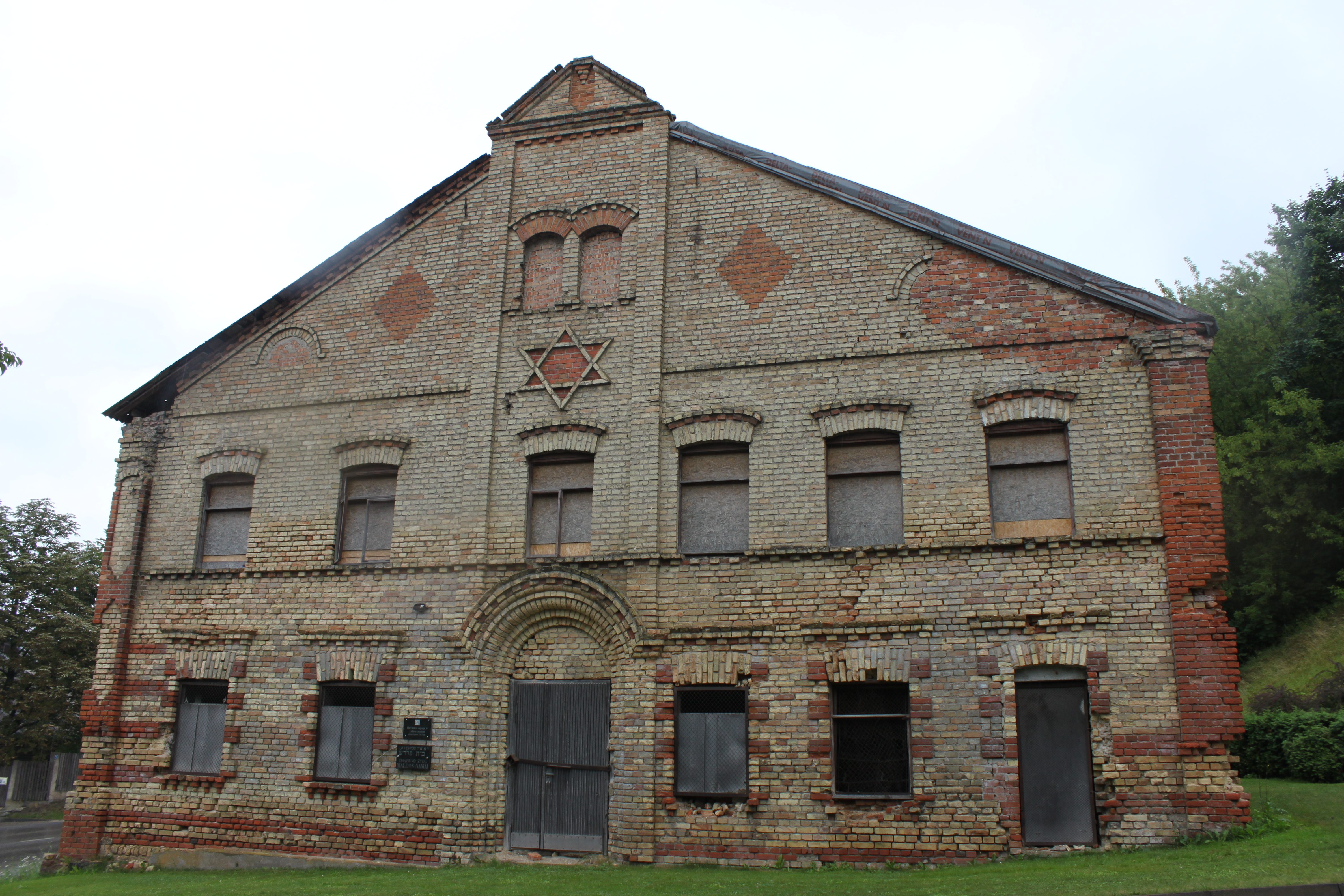 Alytus Synagogue, Lithuania